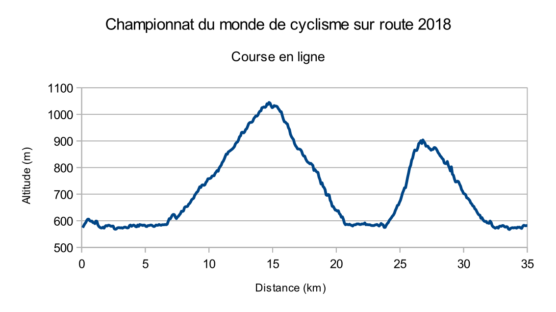 Profil of the last round of men race of World Championship 2018 in Innsbrück.